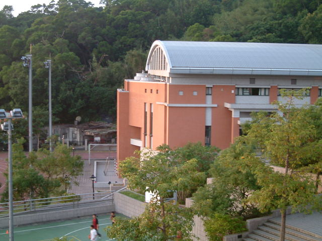 The Gym of LSSH